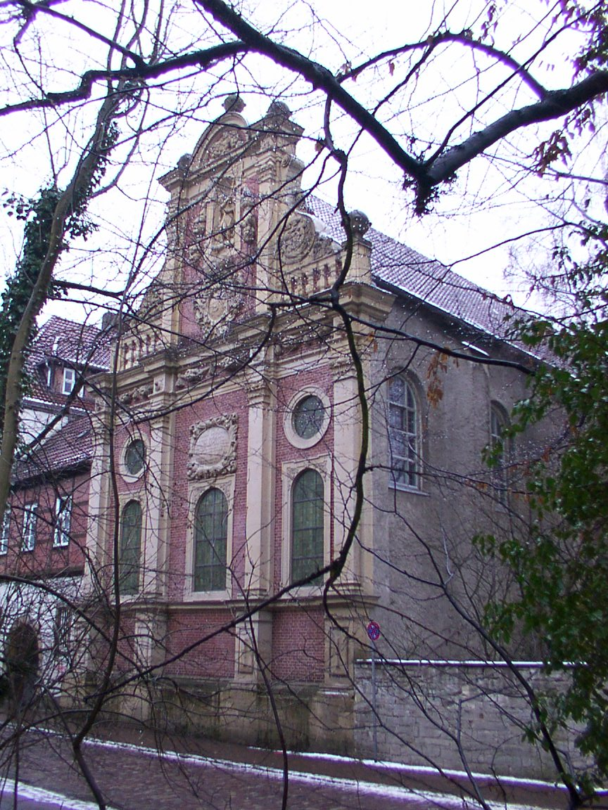 Paderborn: Church of the St. Michael’s Convent This is a photograph of an architectural monument.